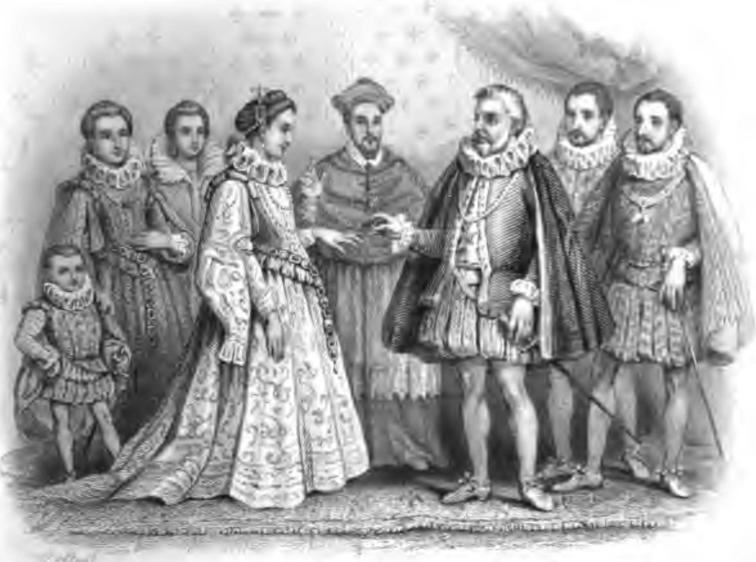 Engraving of the Proxy Marriage of Mary of Lorraine (also known as Mary of Guise; * 1515; † 1560), second wife of James V of Scotland (* 1512; † 1542) and Queen of Scotland from 1538 till 1542.